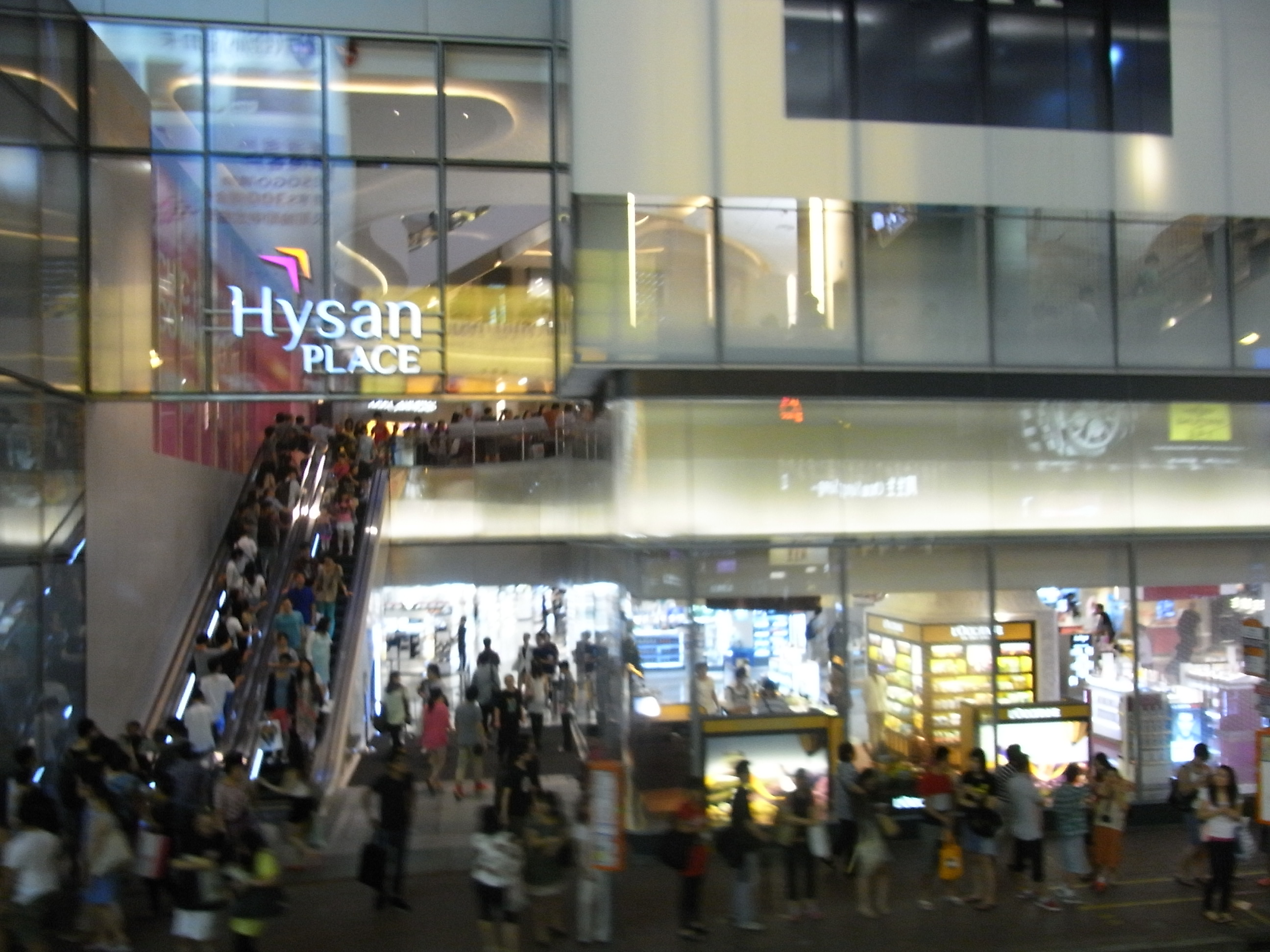 Tram night tour view Hysan Place, Hennessy Road, Causeway Bay, Hong Kong